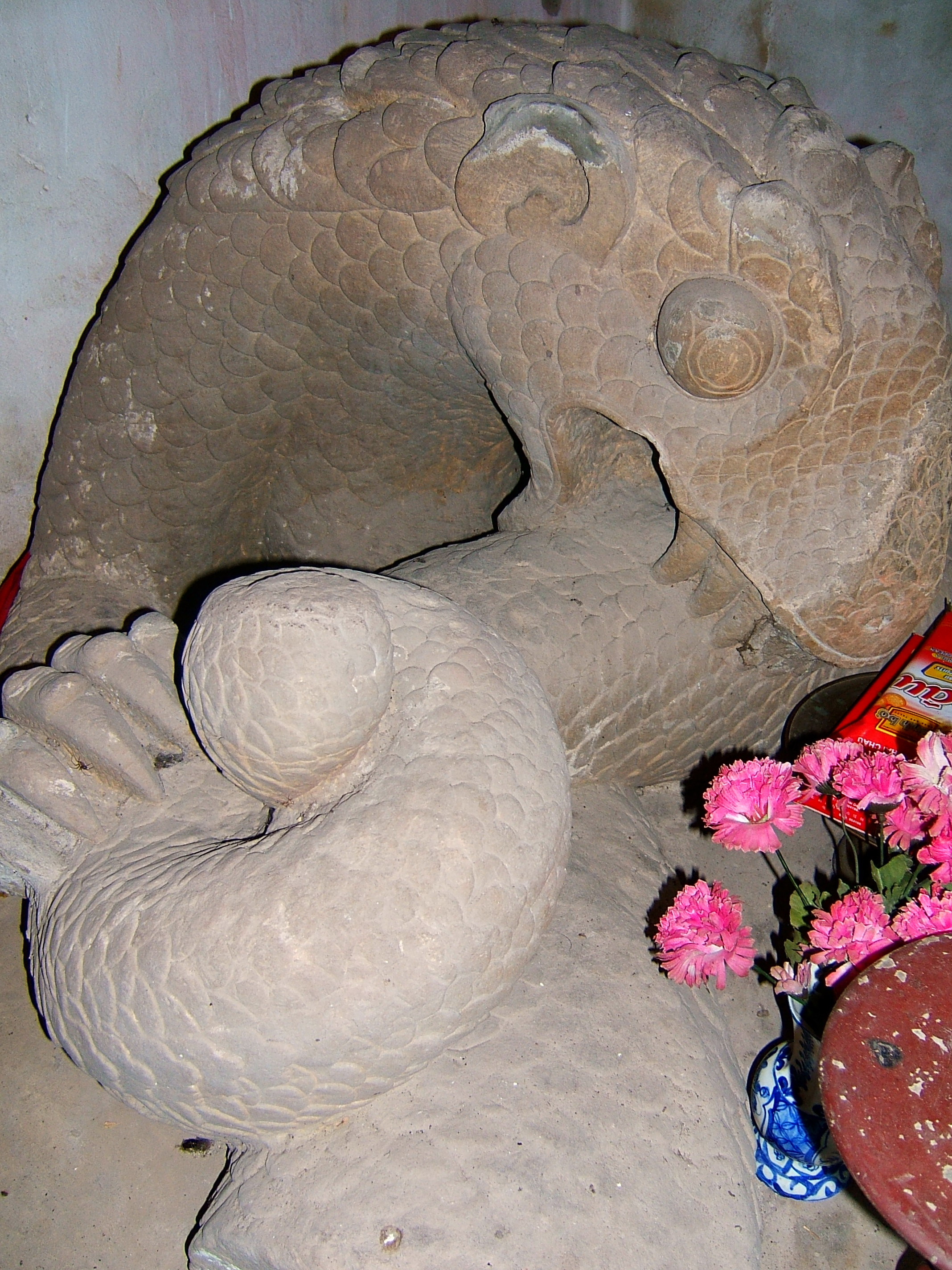 The statue of the snake eating his own tail at the field near Lê Văn Thịnh's shrine. It was detected by some farmers about 1960s and protected at the shrine but be extraneous to Lê Văn Thịnh.There are two shrines in Thuận Thành and Gia Bình dedicated to Lê Văn Thịnh. In the latter is preserved a strange statue in stone which can be understood as a symbol of Lê Văn Thịnh, the victim of an injustice. The statue describes an animal that is a dragon eating its own tail with an utmost painful expression. It was discovered in the early 1990s buried under the soil of Bảo Tháp, a hamlet in Lê Văn Thịnh's native village Đông Cứu. The statue was carved with sophisticated patterns which are unseen-of in the history of Vietnamese art. With its mystic form and the symbol of Lê Văn Thịnh's fate, the statue was brought into the shrine of Lê Văn Thịnh to co-worship with the former chancellor with the respectful name "Ông Rồng" (His Dragon).